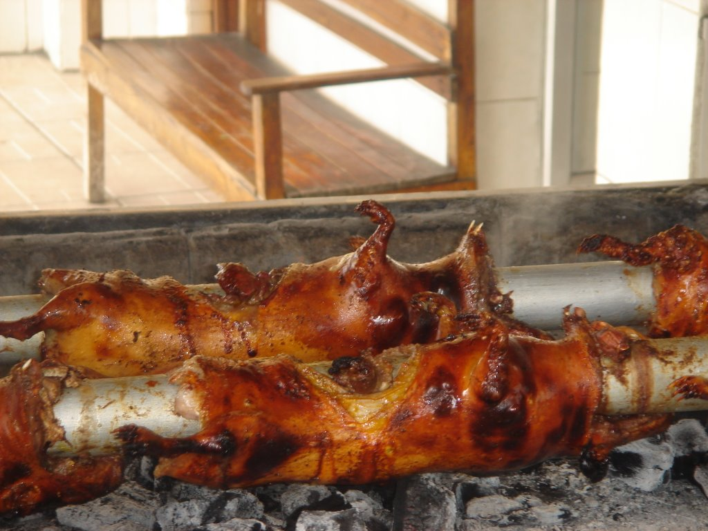 Ecuadorian food